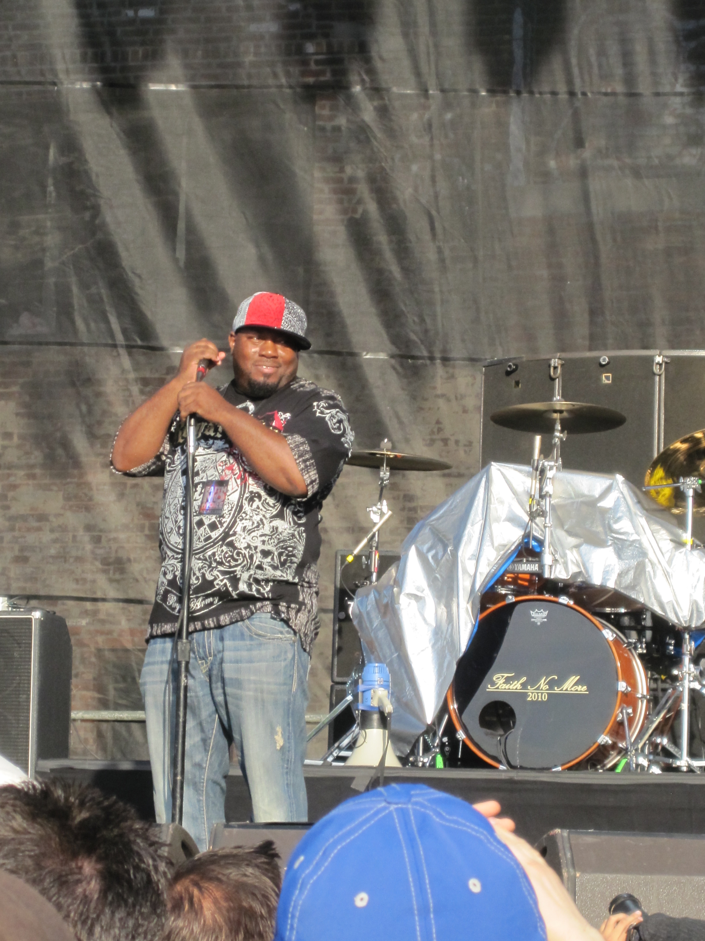 Rahzel opening for Faith No More, July 2010